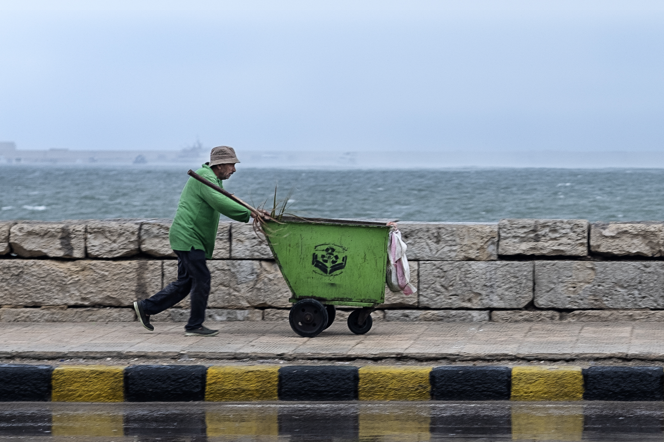 collector Recycle and cleaner streets in Alexandria during rainy day This is an image with the theme "Africa on the Move or Transport" from: Egypt